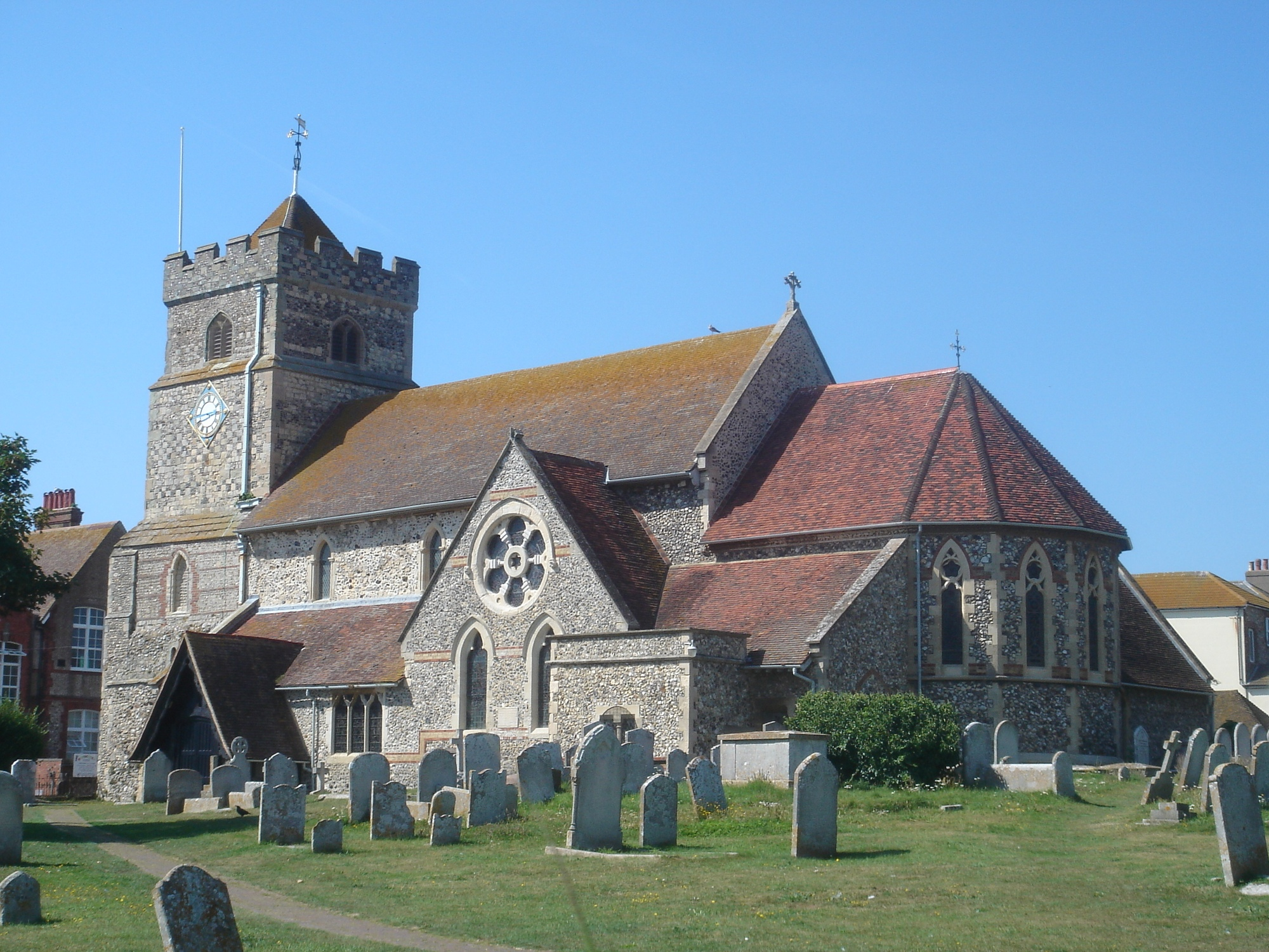 St Leonard's Church, Church Street, Seaford, District of Lewes, East Sussex, England. Parts of Seaford's parish church are Norman; the tower is 15th-century. Listed by English Heritage at Grade I (IoE Code 292573)